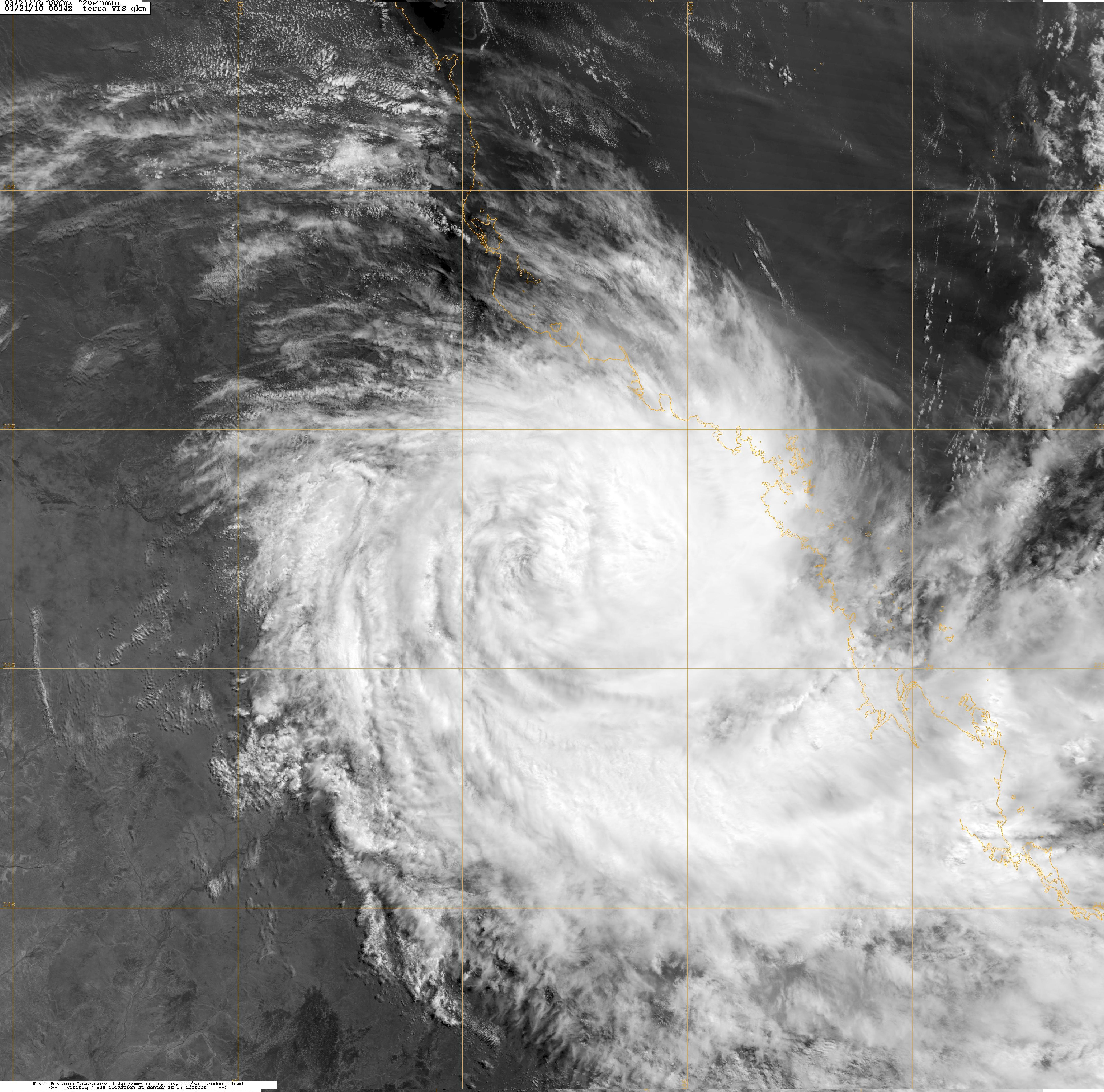 Cyclone Ului at landfall then rapidly weakens.